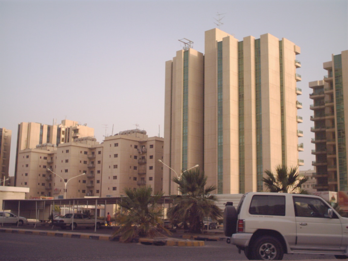 A view of locally well-known residential buildings in Jabriya, Kuwait.